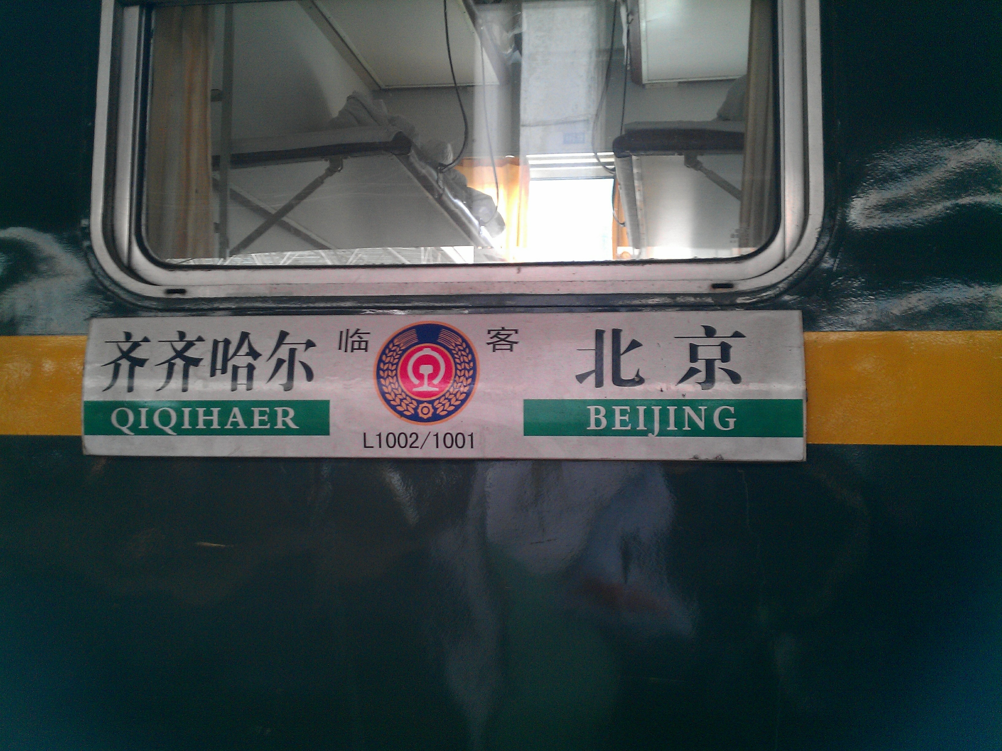 The Information Board of Train L1001, China Railway, in Jan 2012.